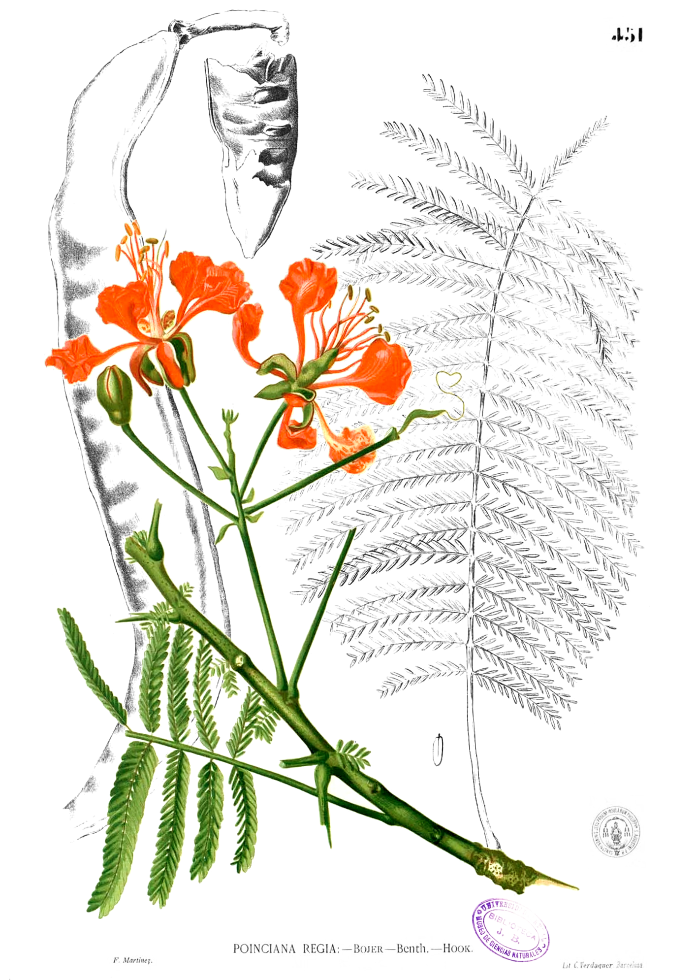 Plate from book